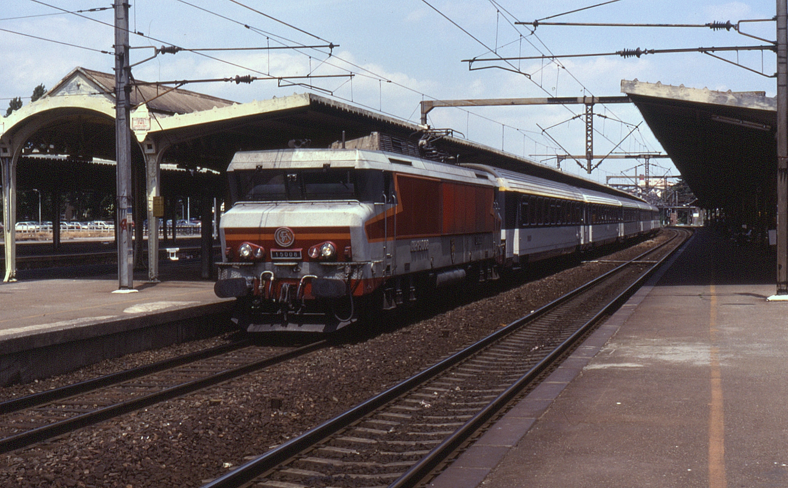 5 June 1991 sees BB 15008 at Colmar.